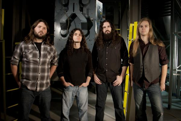 Hope for the Dying Promotional Material 2010